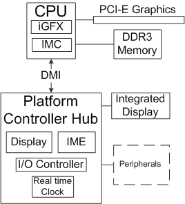 Block diagram of Intel 5 Series "Ibex Peak". Used with LGA 1156 and Nehalem (45 nm) and Westmere (32 nm) CPUs. Used with Intel HD and Iris Graphics which replaced Intel GMA (Graphics Media Accelerator).